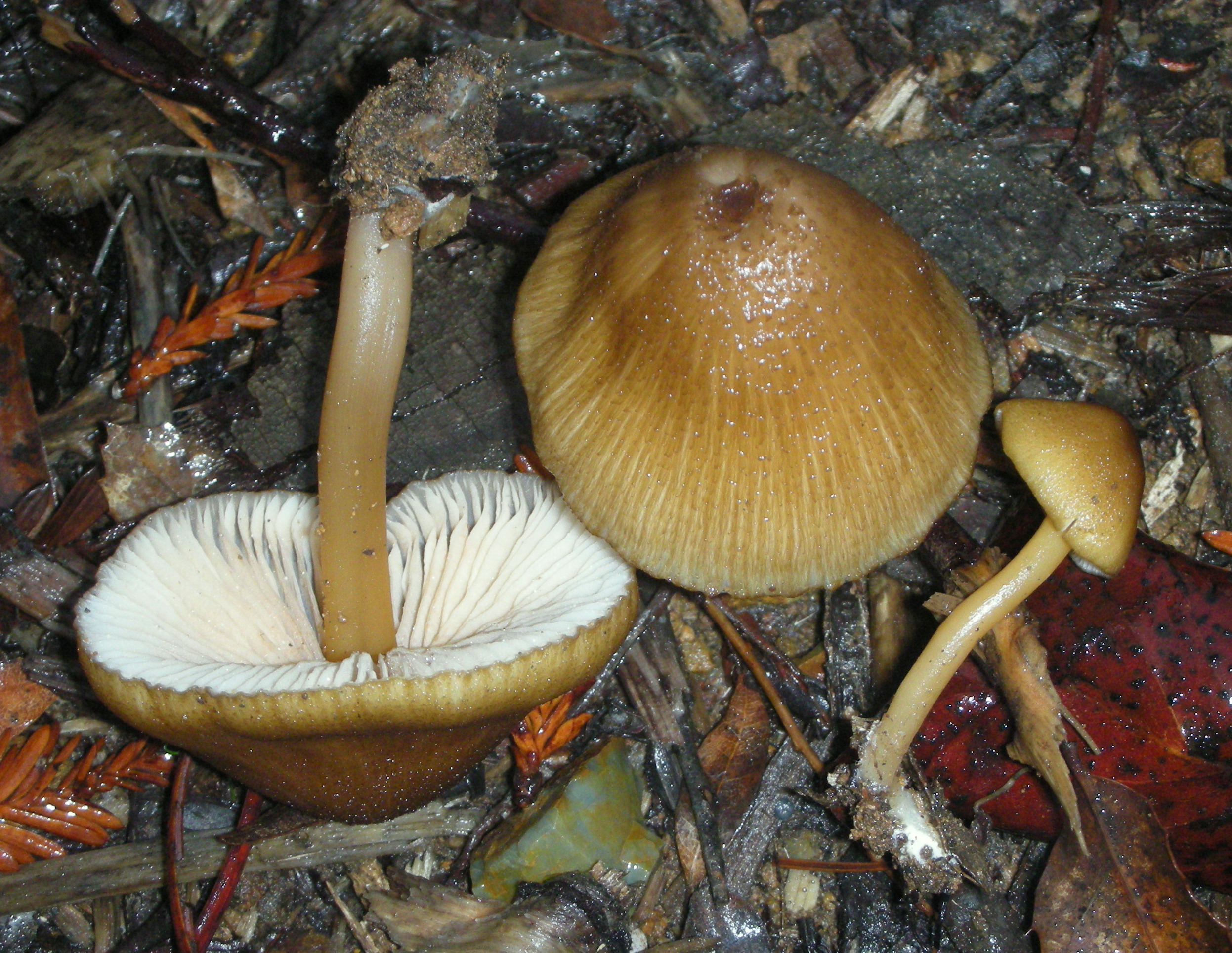 Leptonia formosa Location: Bolinas Ridge, Marin Co., California, USA Observation Notes: These were growing on woody debris. They at least meet the basic description for Nolanea sericea as well as the spore size. The pink spores were ~ 11.9-12.5 X 7.6-8.1 microns and mostly 6 sided. I couldn’t enter the Nolanea sericea name…this was one of the acceptable synonyms. For more information about this, see the observation page at Mushroom Observer.